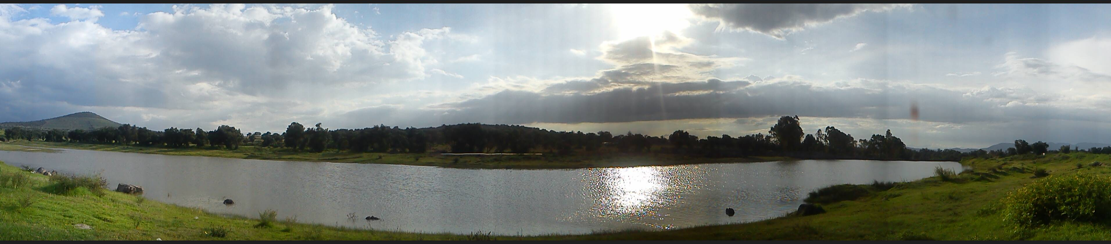 Panorámica de presa y el cerro de Paula al fondo.